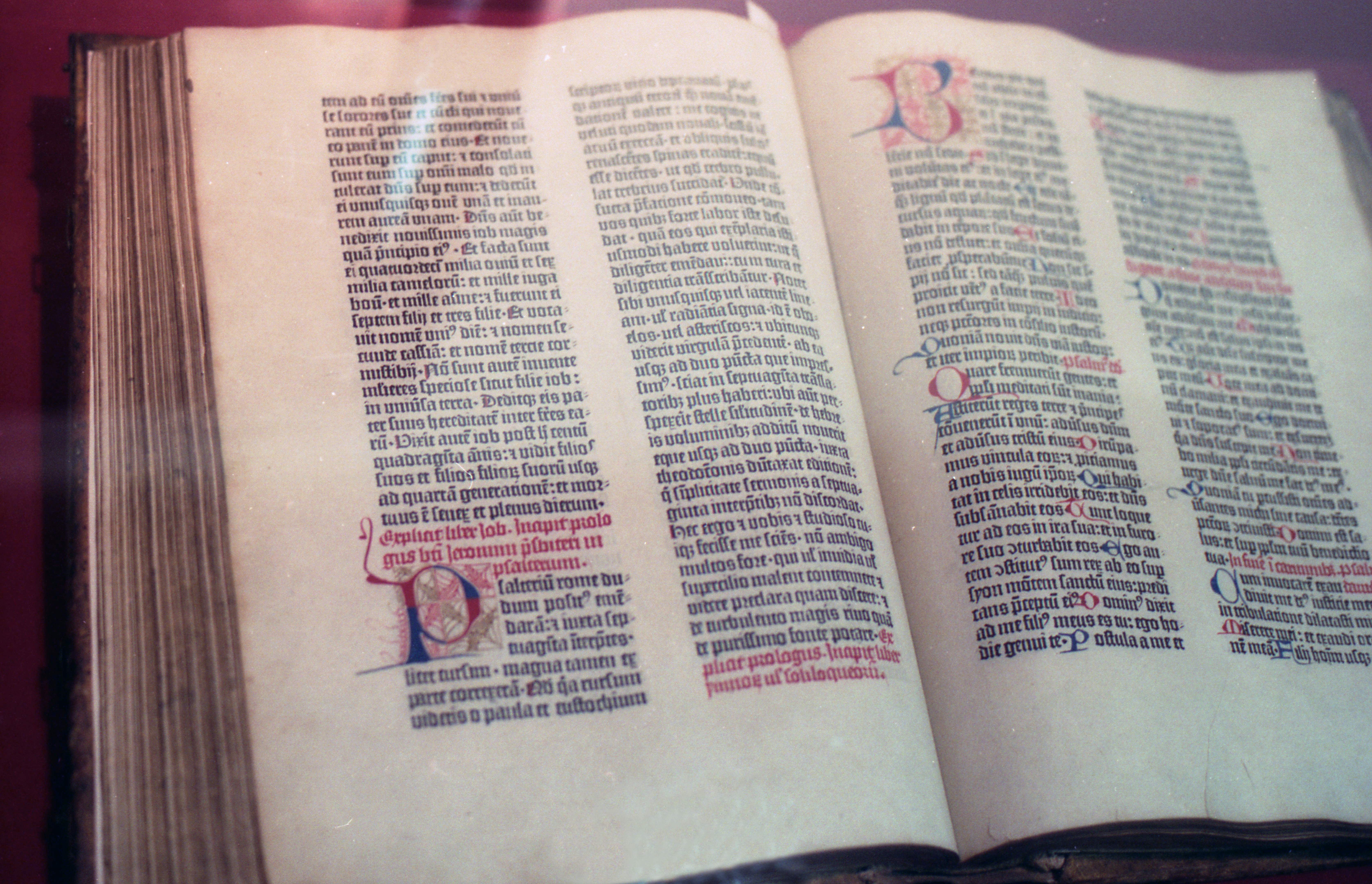 36 lines Gutenberg Bible Plantin-Moretus-Museum Antwerp.